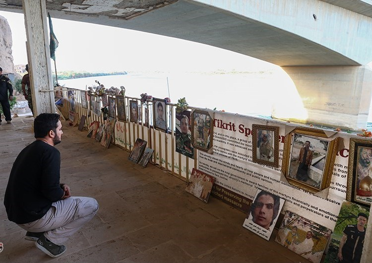 Memorial of martyrs of Camp Speicher massacre in Saddam's Presidential palaces in Tikrit after Fall of ISIS in Which the massacre happened.